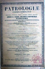 Cover of Patrologiae cursus completus by Jacques Paul Migne